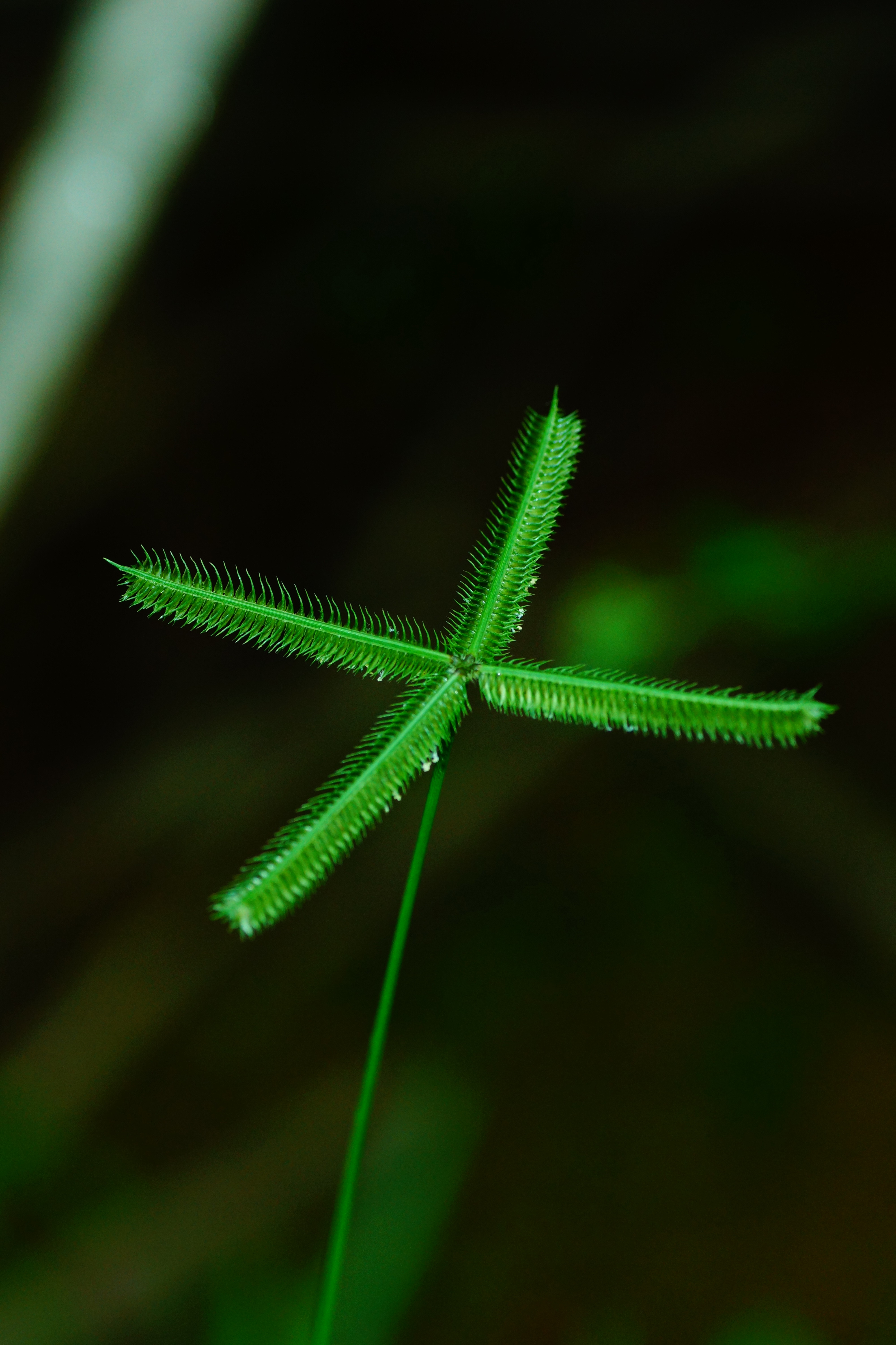 Dactyloctenium aegyptium